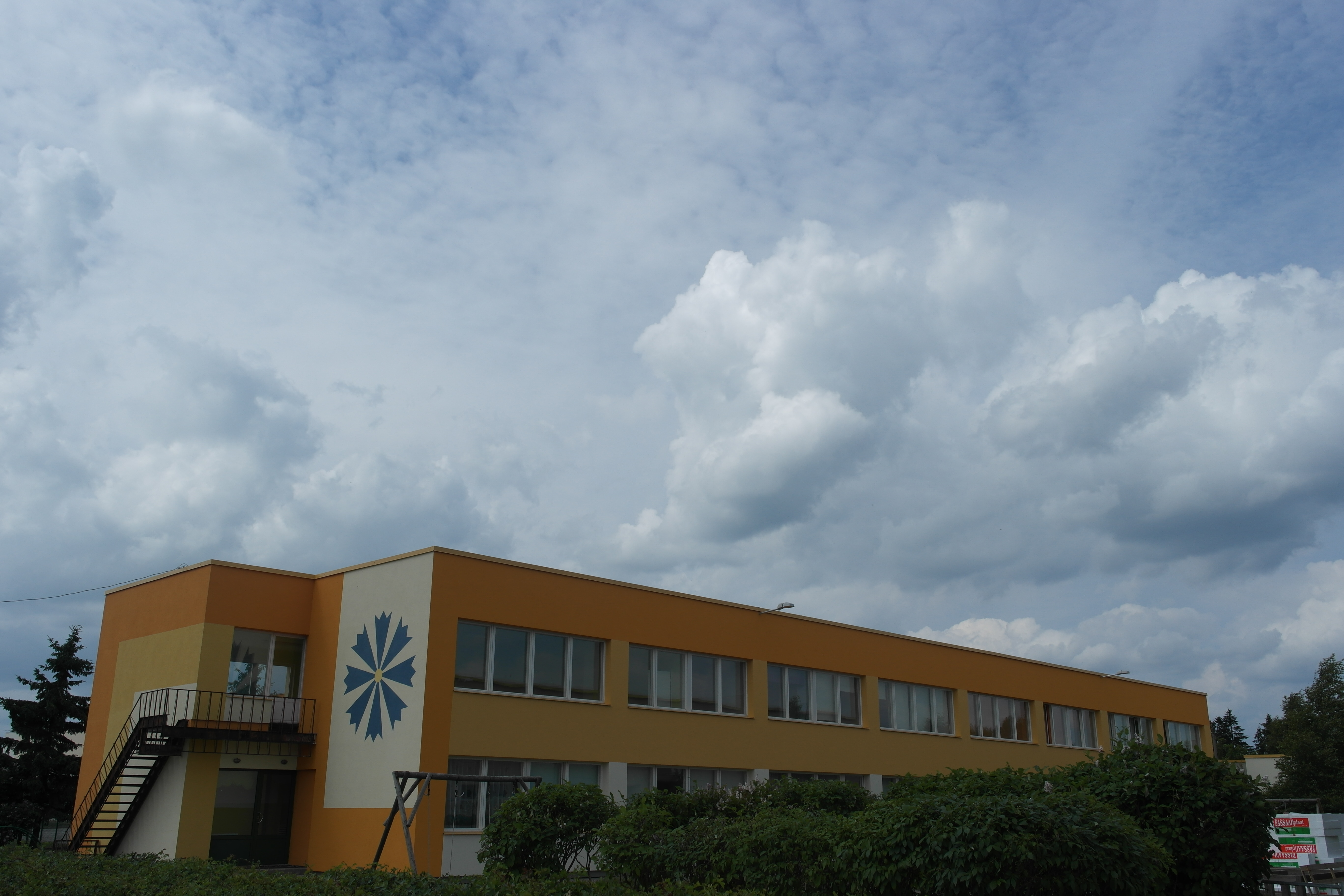 Aruküla small borough kindergarten "Rukkilill"